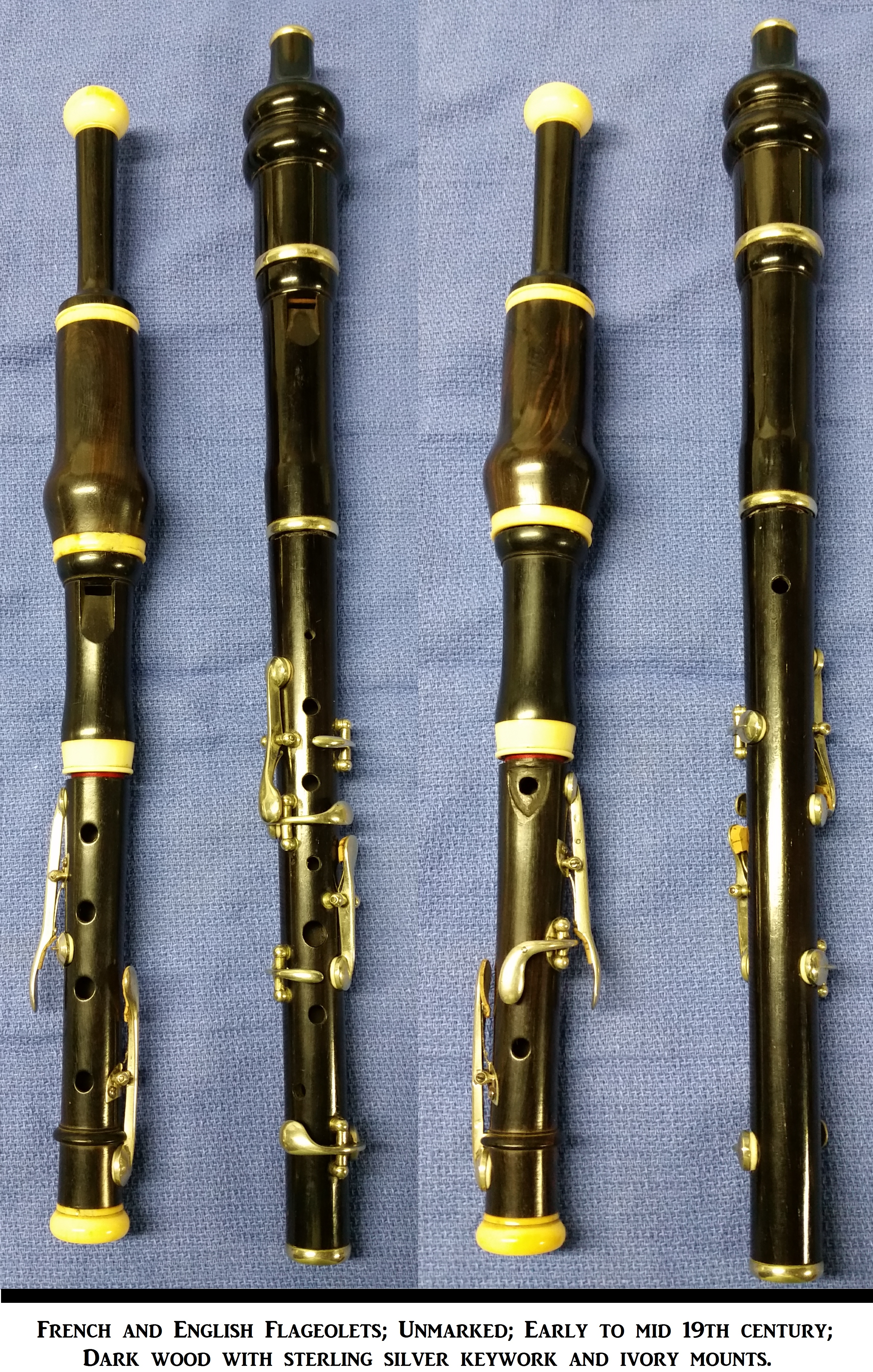 Comparison of French (l) and English (r) flageolets; showing both the anterior and posterior aspects of the instruments and their typical keywork.